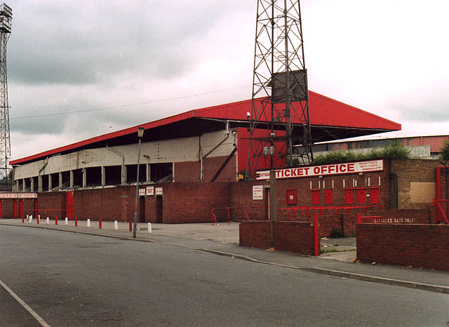 East Stand, Ayresome Park Middlesbrough FC's former ground, pictured in 1995. Same view as 427762